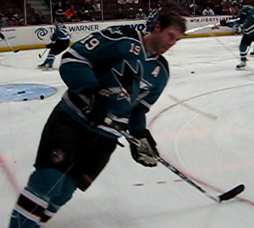 Joe Thornton during warmups on March 28, 2008